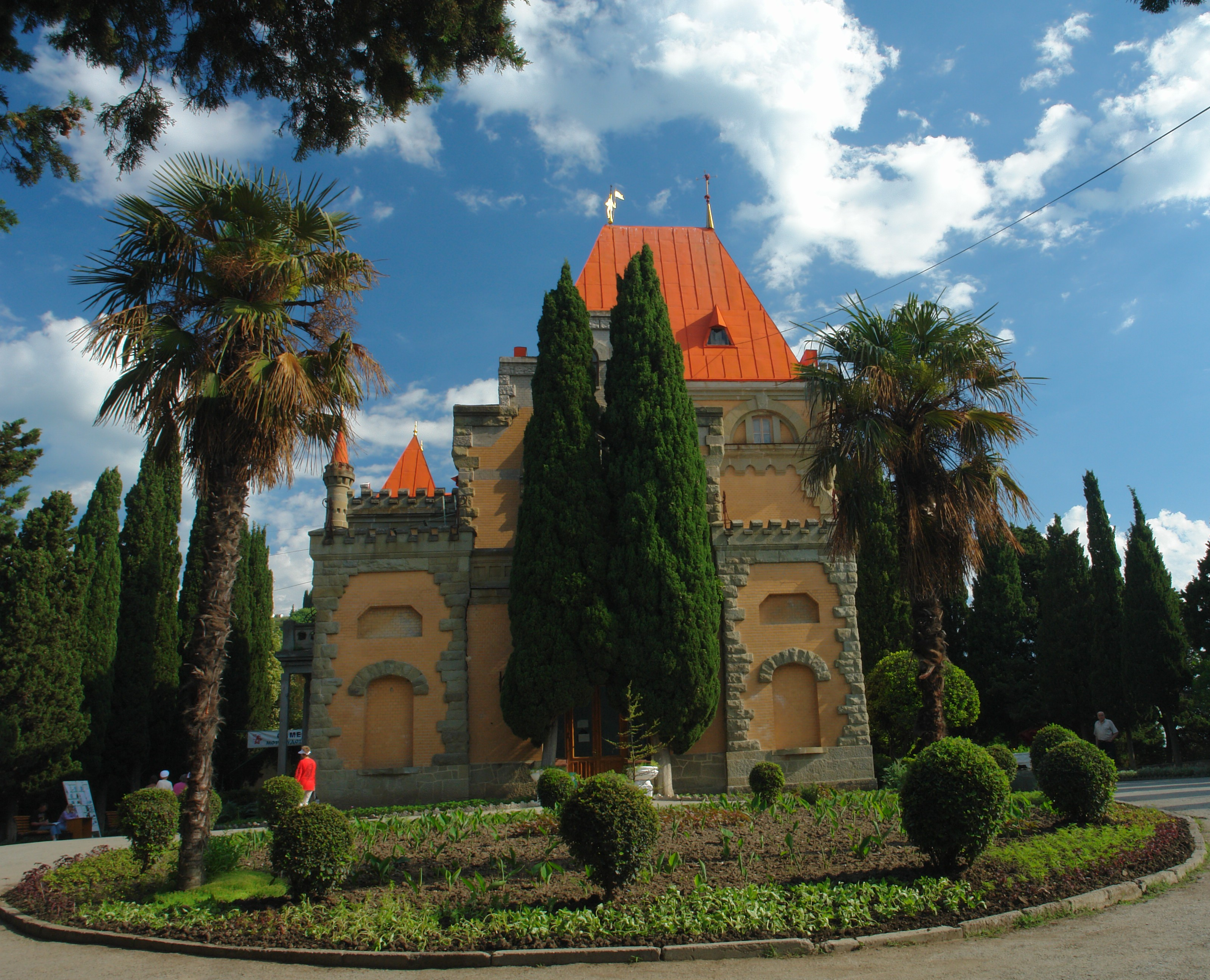 Palace of Princess Anastasia Gagarina — now the administrative centre of the sanatorium "Utes", located in the seaside town of Utes, in the Crimea, Россия.